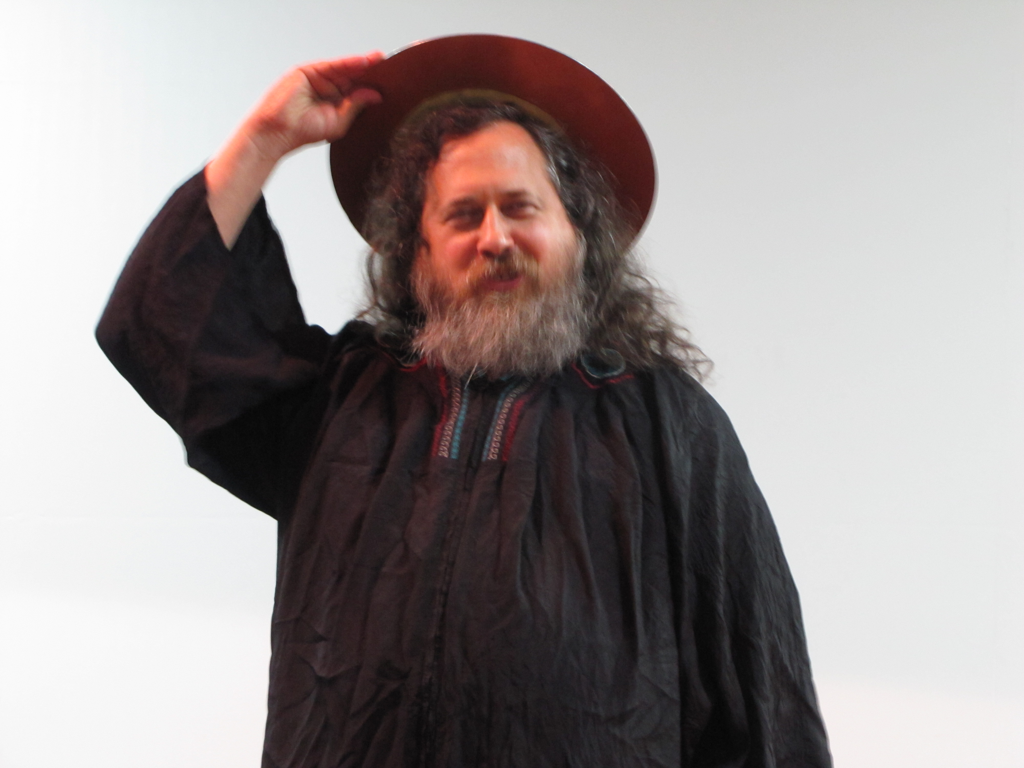 Richard Stallman in his Saint iGNUcius Avatar at Techniche , IIT Guwahati